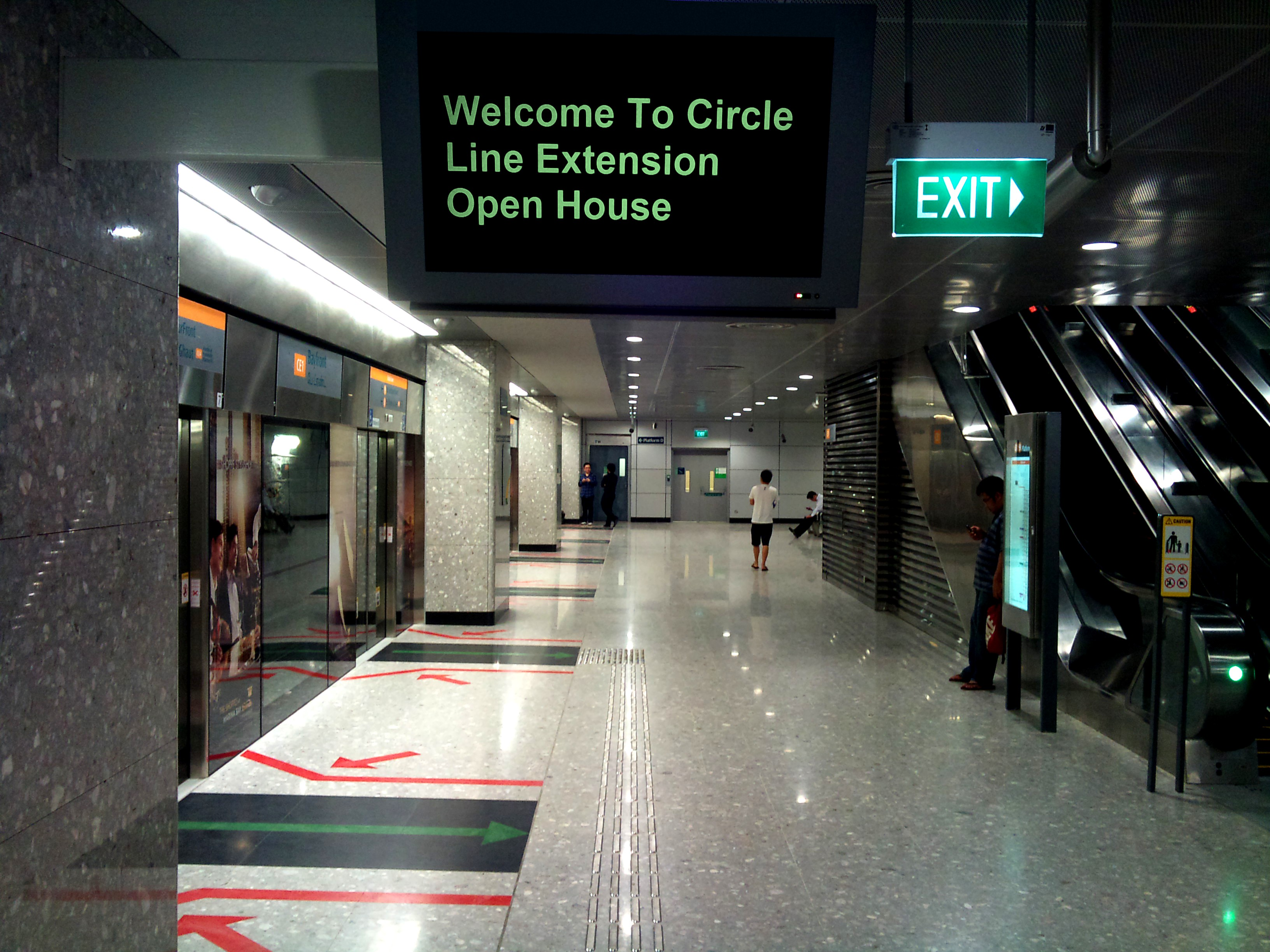 Picture of the Circle Line platform at Bayfront MRT Station.